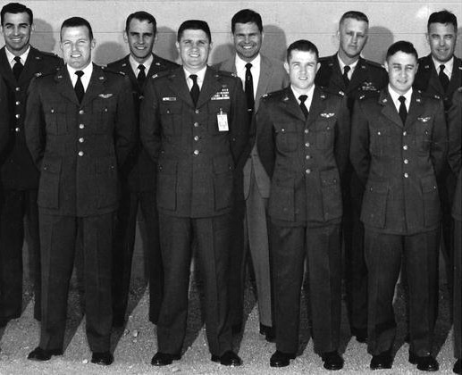 USAF Experimental Flight Test School (Class 56D) at Edwards Air Force Base in California. Front row: Captains Gordon Cooper, James Wood, Jack Mayo and Gus Grissom. Back row: Major Joseph Moore, Captain Richard Gough, Thomas Gillespie, Captain Joseph Edwards and Major Thomas Rischer III.